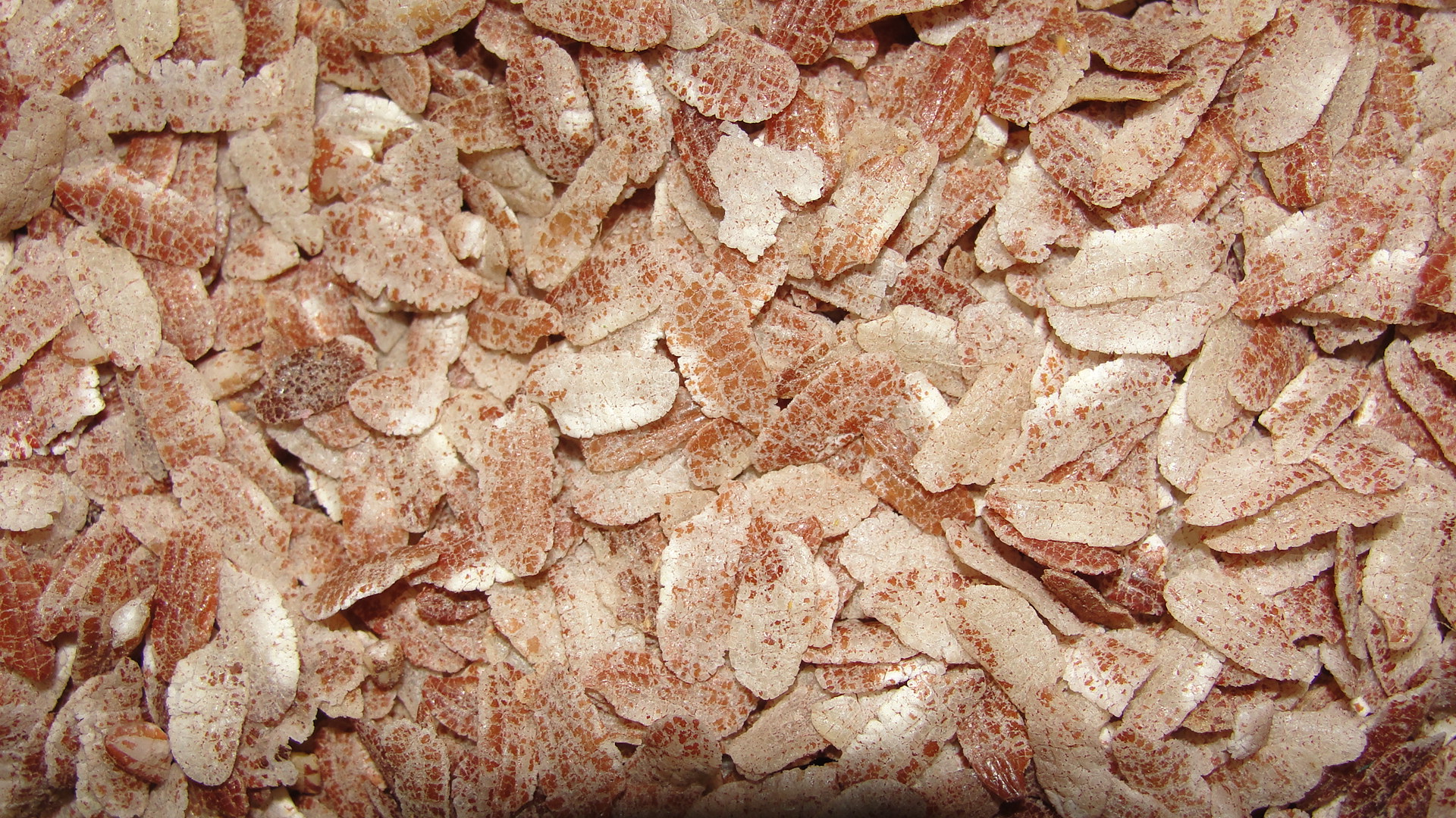 A closeup of Rice flake